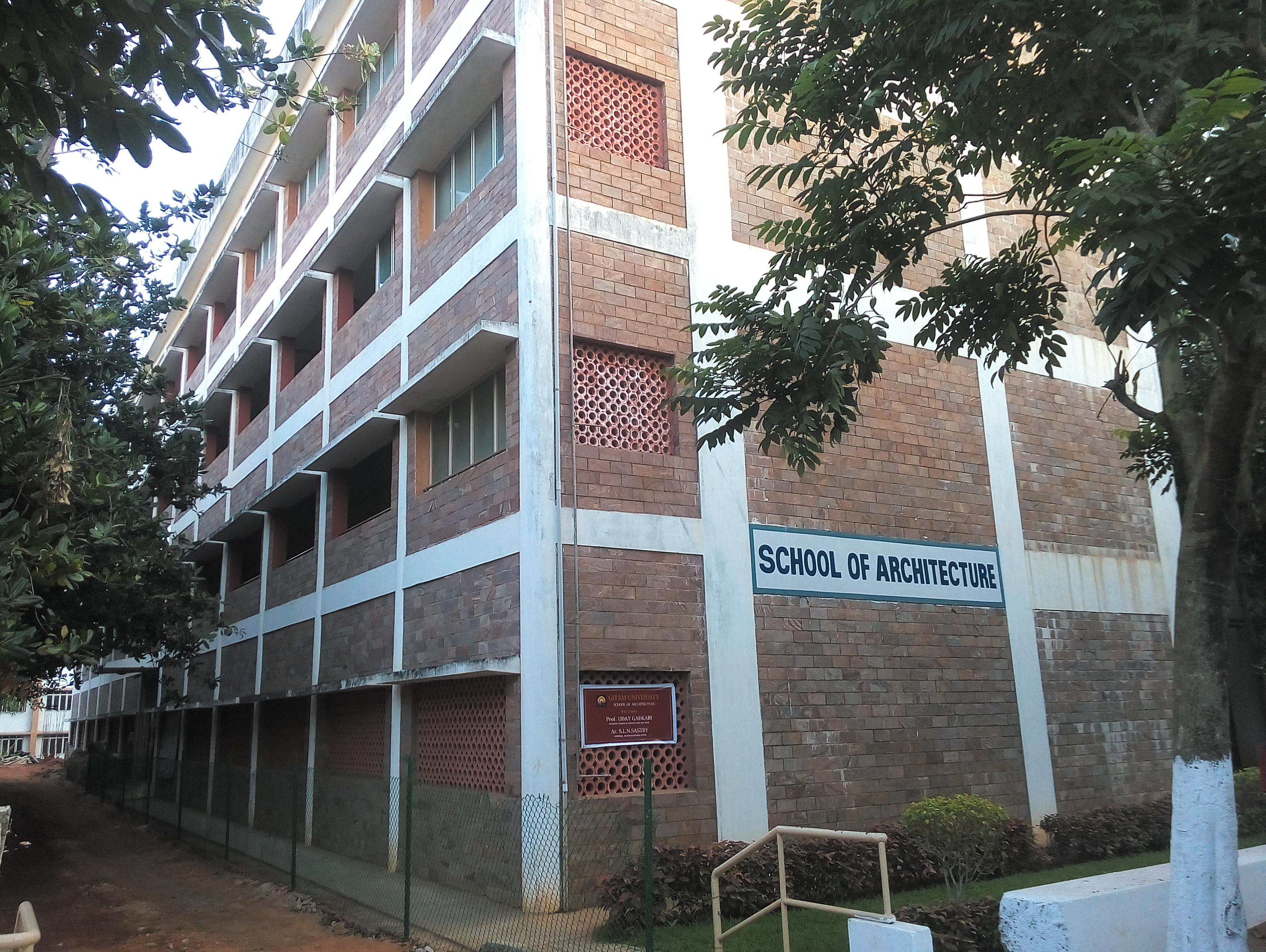 Gitam University Other information GSA Gitam